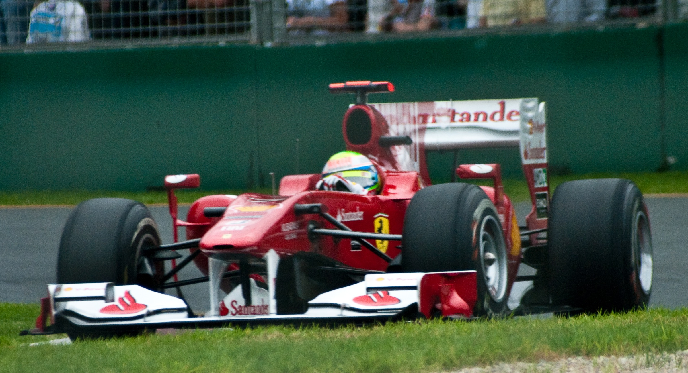 Massa in Melbourne